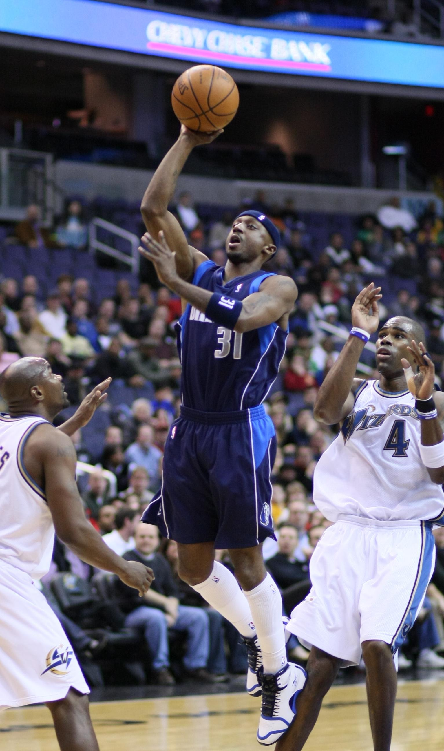 Jason Terry playing with the Dallas Mavericks